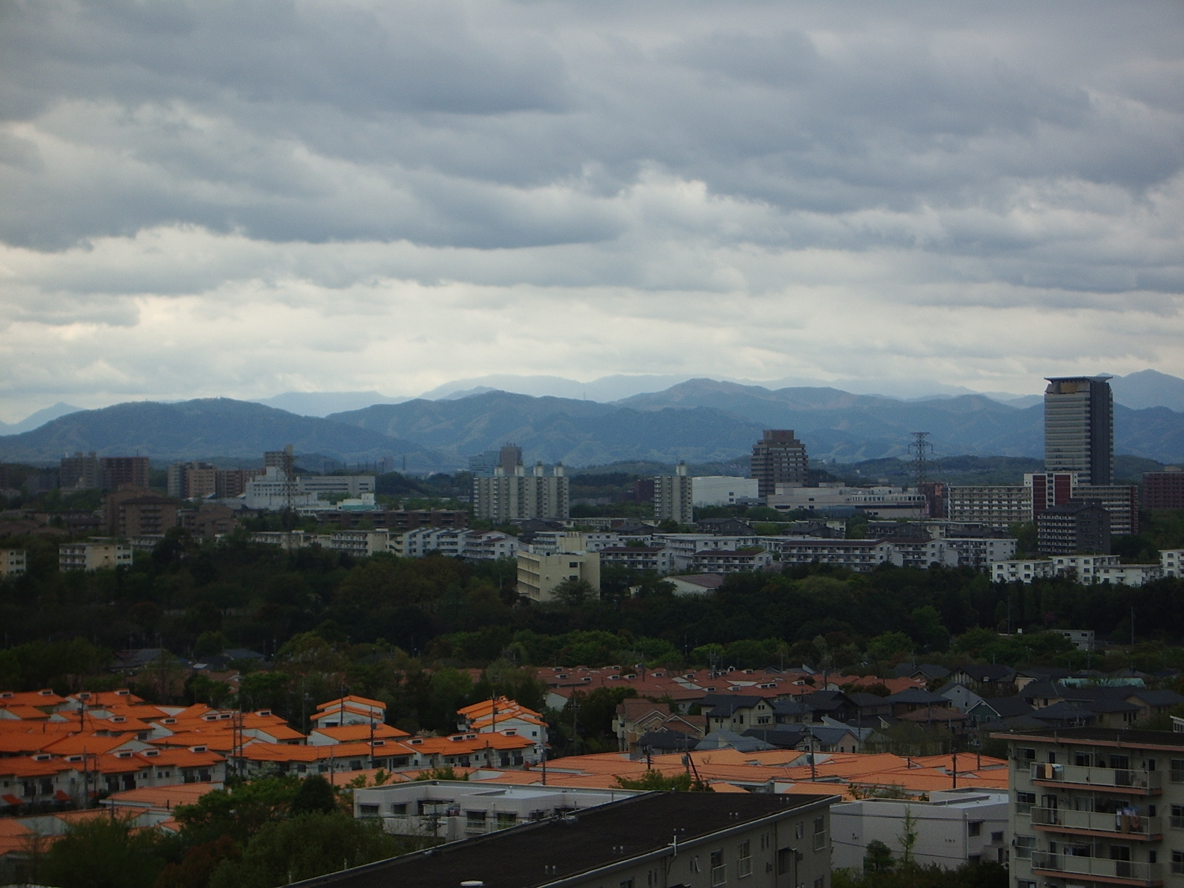 Chichibu mountains view from Yokoyamanomichi